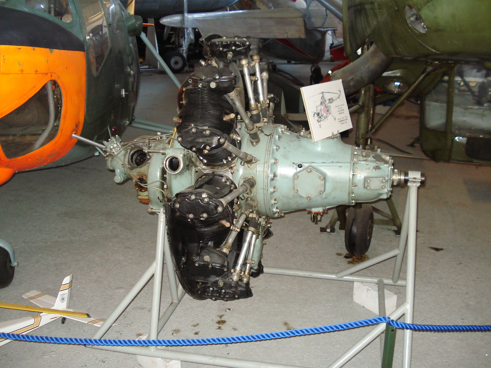 Polish-made Ivchenko AI-26V engine. This one powered the SM-1 (Mi-1) helicopter in Finnish service. Displayed in Finnish Aviation Museum. Source: Photo by me, User:Balcer.